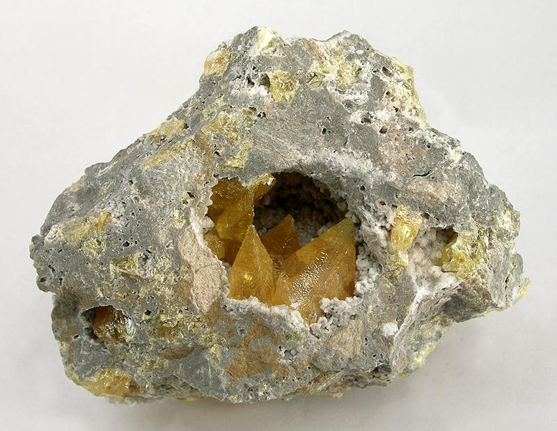 Sulphur Locality: Cento Carusi Mine, Caltanisetta, Sicily, Italy Size: cabinet, 9.5 x 7.0 x 5.5 cm Sulfur (bipyramidal?!) Aesthetically nestled in its matrix vug, are five, golden-yellow, gemmy, seemingly bi-pyramidal, crystals of sulfur to 2.0 cm in length. This habit is fairly uncommon in sulfur crystals. In fact, I cannot say as I have seen them like this befor efrom Italy, only from Russia. In addition, good sulfur specimens are getting scarce, especially since the mines are all played out. These crystals of beautiful form are nicely protected in a vug, as well, showing the whole pocket formation as it is found and making this a bit special in my book.